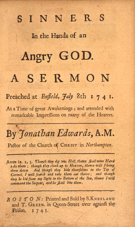 "Sinners in the Hands of An Angry God, A Sermon Preached at Enfield, July 8, 1741," by Rev. Jonathan Edwards, Printed by S. Kneeland and T. Green, Boston, 1741. Image courtesy of the Library of Congress, and the Rare Books Division, the New York Public Library.